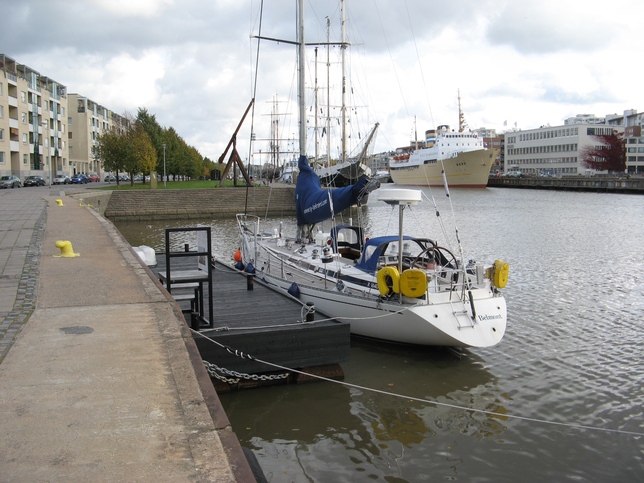 Harry Harkimo's former yacht s/y Belmont in Turku, now in charter use. In the background, from the left: residential buildings, a replica of an 18th century lever beacon, the barque Sigyn, the tugboat Björn, the bermuda schooner Estelle, m/s Normandia and m/s Bore (former s/s Bore, s/s Borea, m/s Kristina Regina).